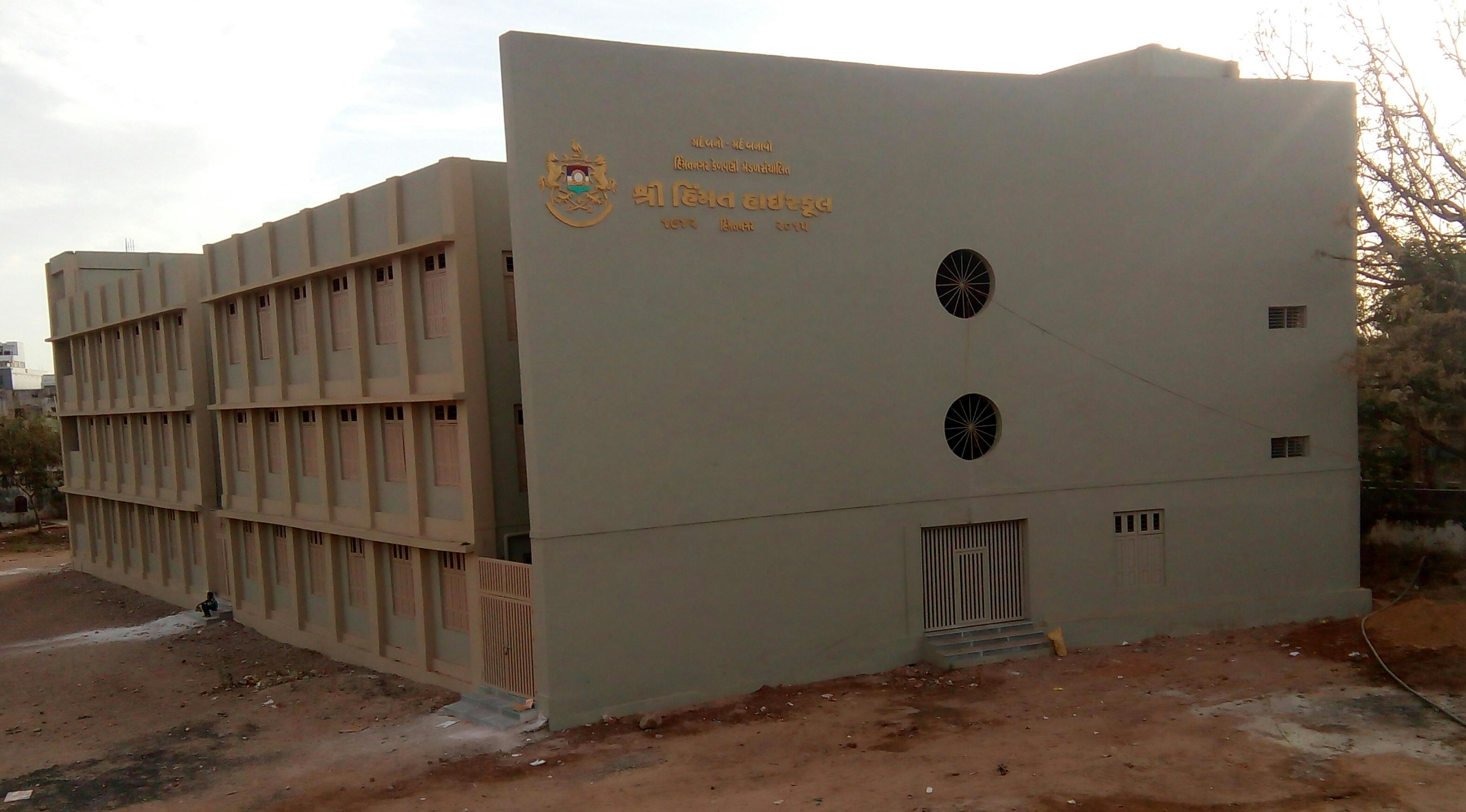 New building of Himmat High School